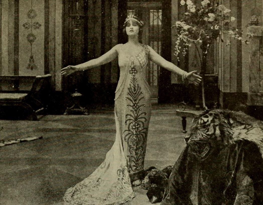 Still from the American drama film Stardust (1922) with Hope Hampton, from an ad for a weight loss program on page 83 of the May 1922 Photoplay Magazine. The caption from another still from a different magazine states that the opera Thais is being performed in this scene.